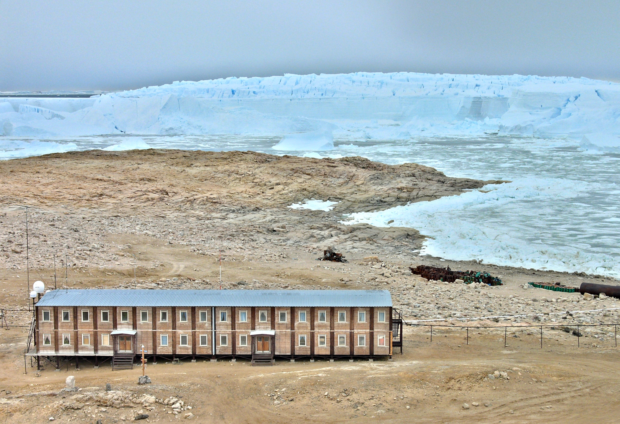 Russian station Progress in the Larsemann Hills/Prydz Bay, East Antarctica